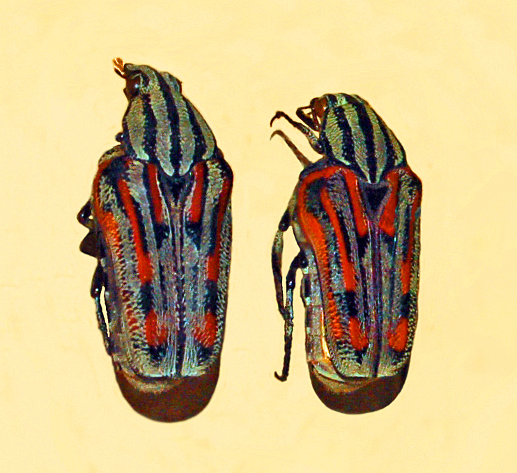 Euselates cineracea from Sumatra